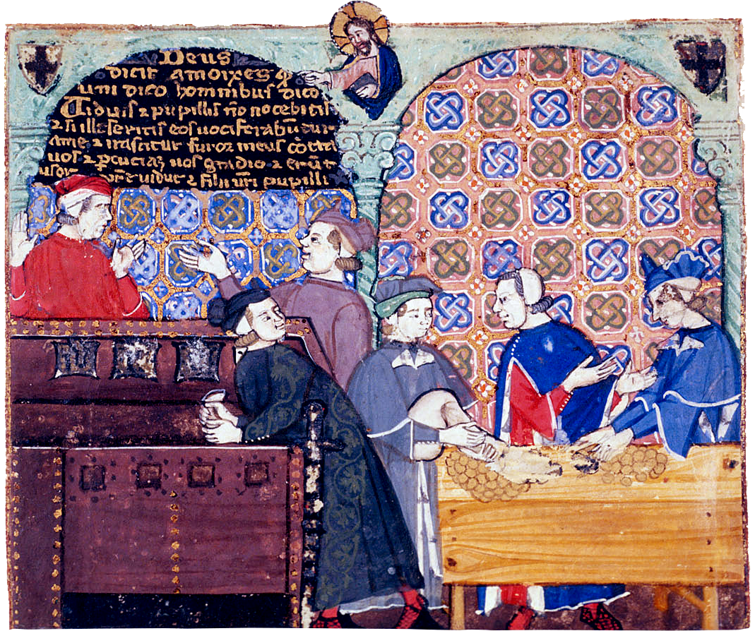 Taken from: Cocharelli, Cuttings from a Latin prose treatise on the Seven Vices. Depicting bankers in an Italian counting house in the 14th century.